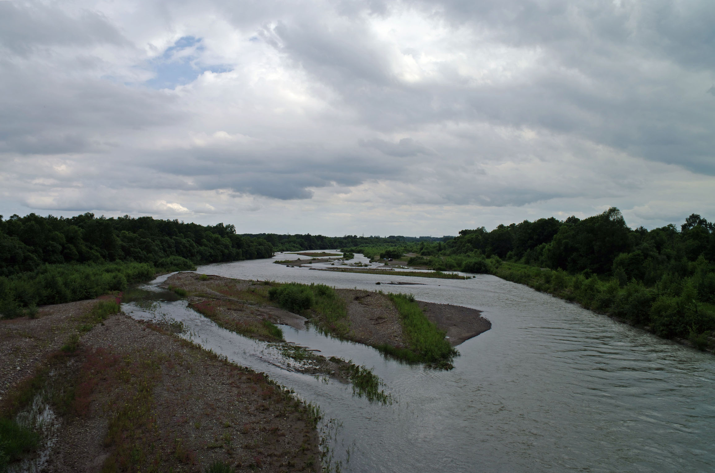 Satsunai river, Hokkaido, Japan